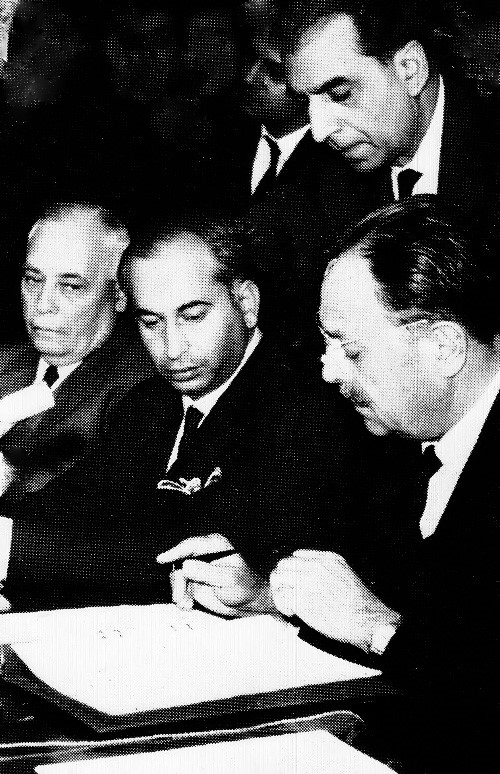 Commerce Minister Ghulam Faruque, Foreign Minister Z A Bhutto and Foreign Secretary Aziz Ahmed look on. Prime Minister Shastri died the same night of a heart attack.